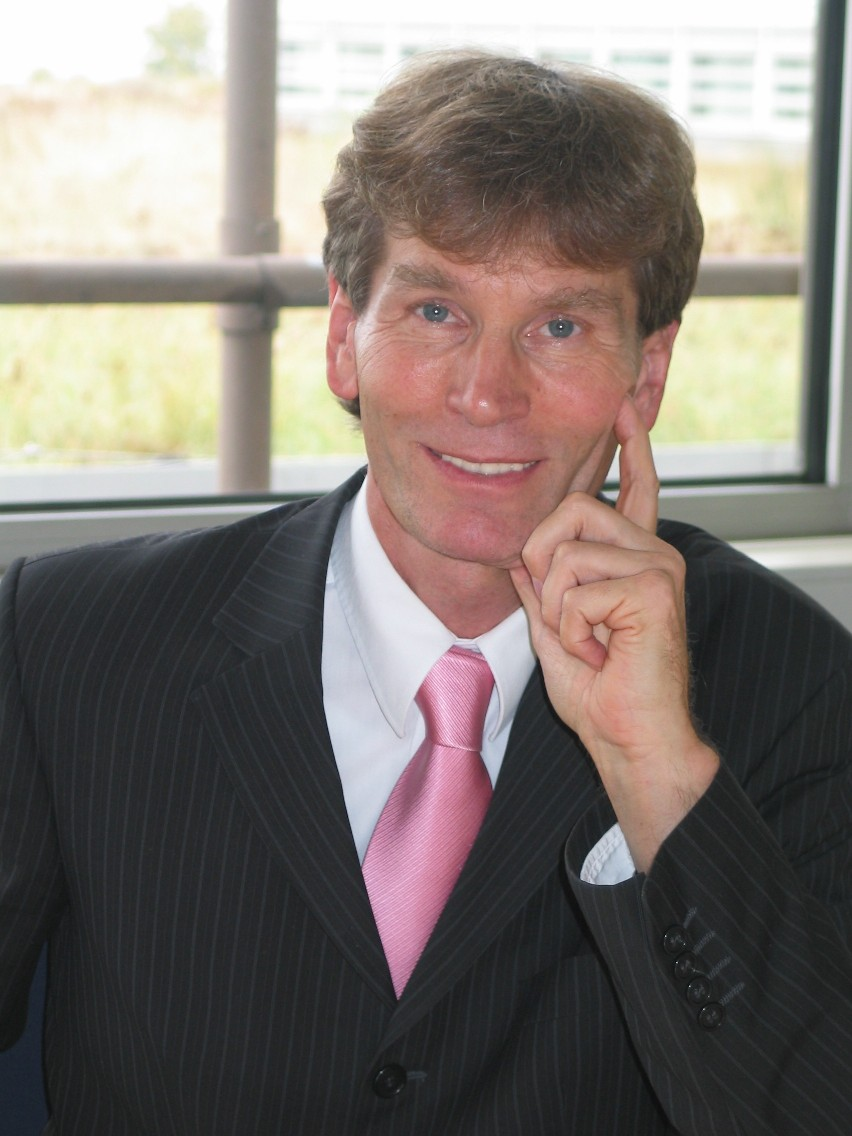 Nikolaus_Risch